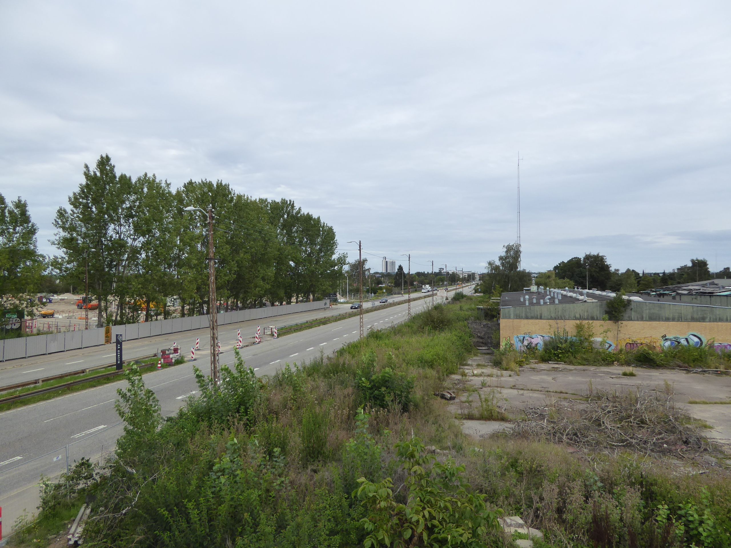 The road Nordre Ringvej at the boarder of Glostrup and Rødovre in Copenhagen. When Hovedstadens Letbane opens in 2025 it will have at station at the right of the road.